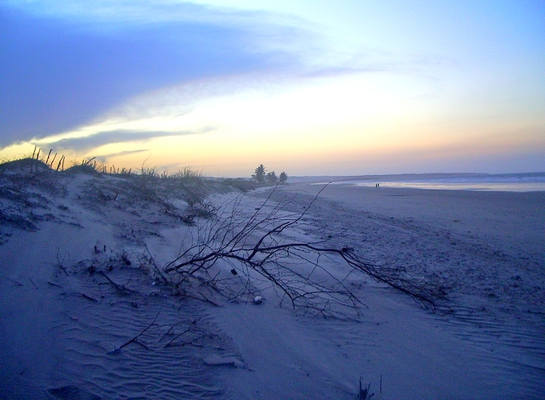 Ponta do Mel Beach, Areia Branca, RN